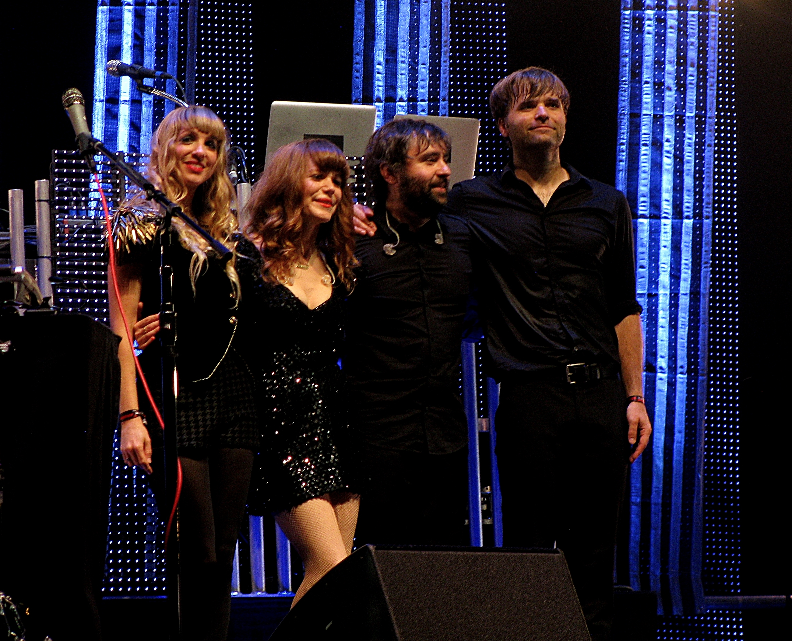 The Postal Service Say Goodbye in Chicago, Lollapalooza